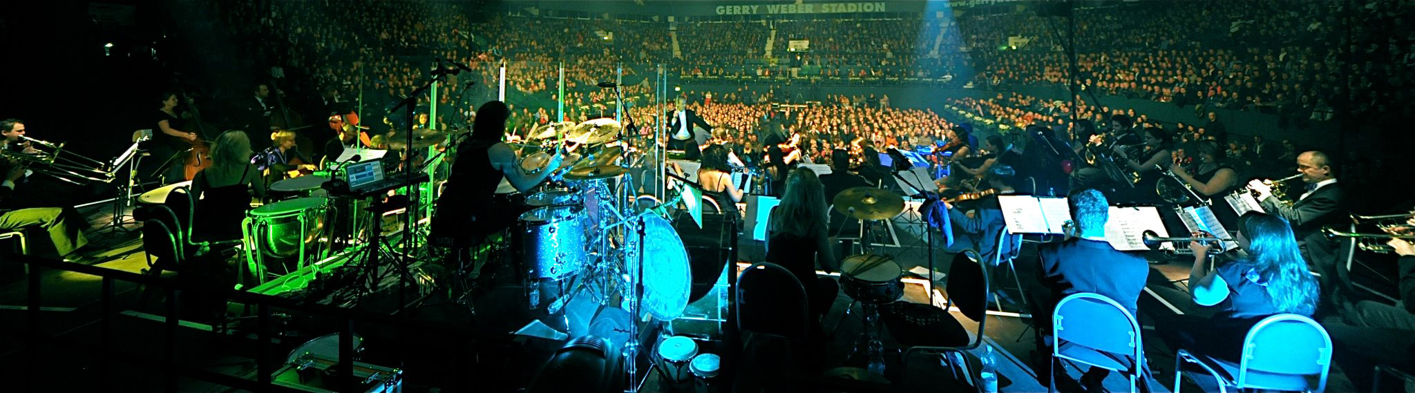 Gerry Weber Stadion, Halle (Westf.) 2012